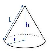 Cone with radius height and lenght (apothem)